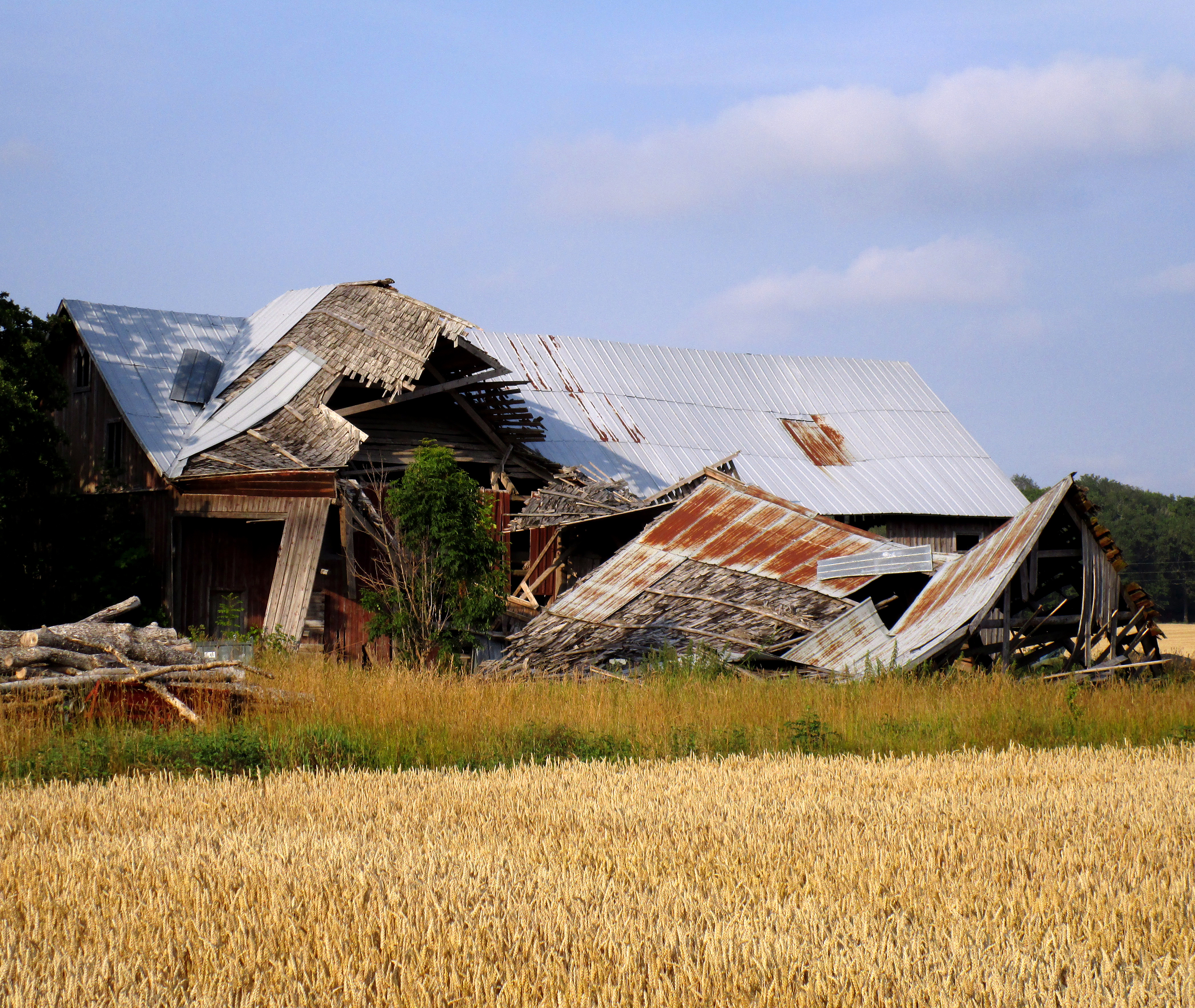 Collapsed barn at Hörsne Gotland Sweden